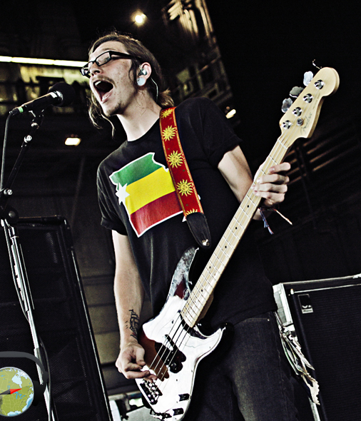 Never Shout Never Warped Tour 2010